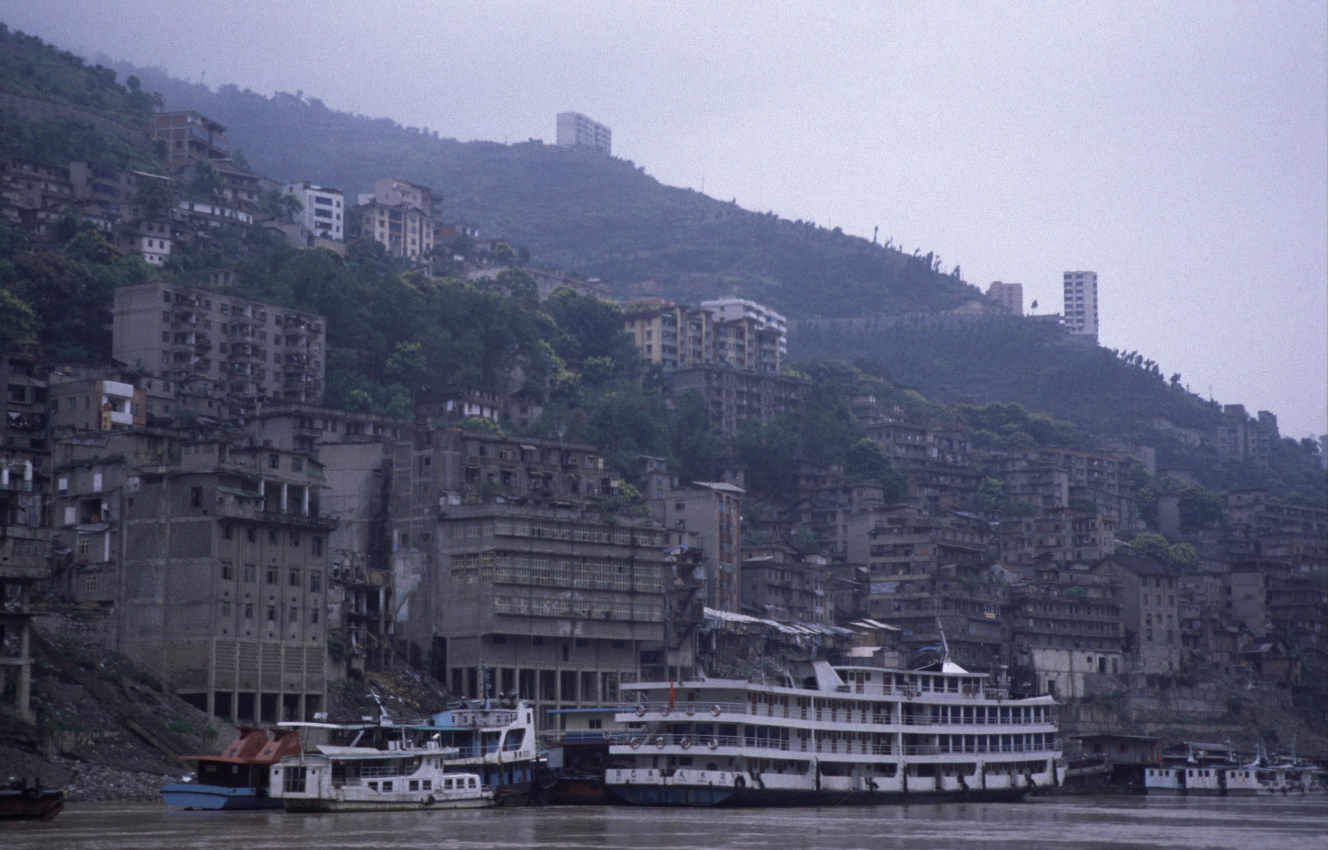 Badong city in Hubei Province, China. Future submersion from the rising Three Gorges Reservoir.